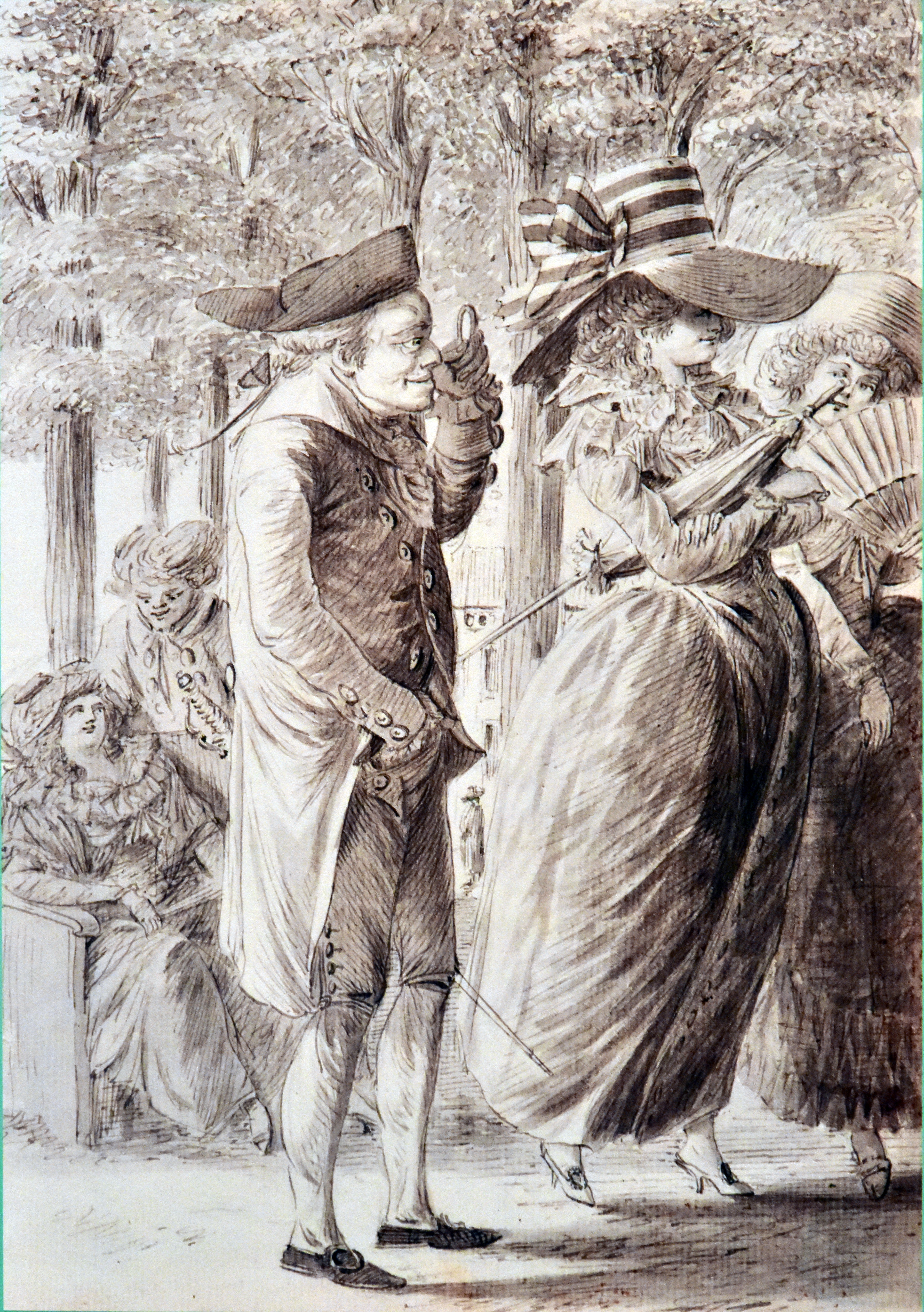 Collection of the Stadtmuseum) in Rapperswil (Switzerland): Ausstellung Der Zeit voraus. Drei Frauen auf eigenen Wegen. Marianne Ehrmann-Brentano Schriftstellerin und Journalistin (1755–1795) ++ Alwina Gossauer Fotografin und Geschäftsfrau (1841–1926) ++ Martha Burkhard Globetrotterin und Malerin (1874–1956) : Marianne Ehrmann-Brentano, Schauspielerin der Theatergruppe Koberwein, die 1784 in Bern gastiert, Zeichnung von Johann Jakob Lutz. Marianne Ehrmann spielte 1785 mit der Truppe von Simon Friedrich Koberwein in Strassburg.